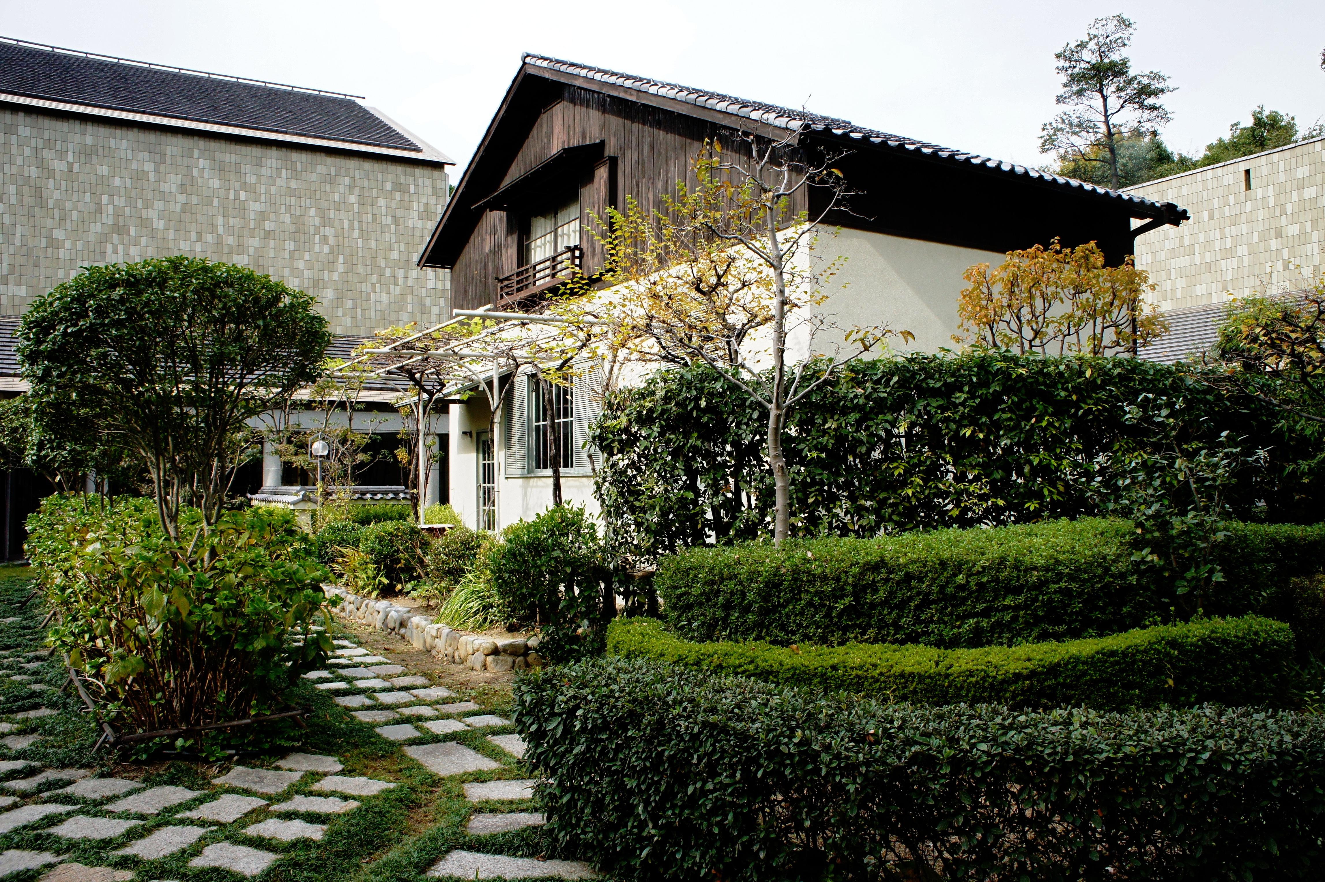 Atelier of Ryohei Koiso (1949) at Kobe City Koiso Memorial Museum of Art in Rokko Island, Kobe, Hyogo prefecture, Japan